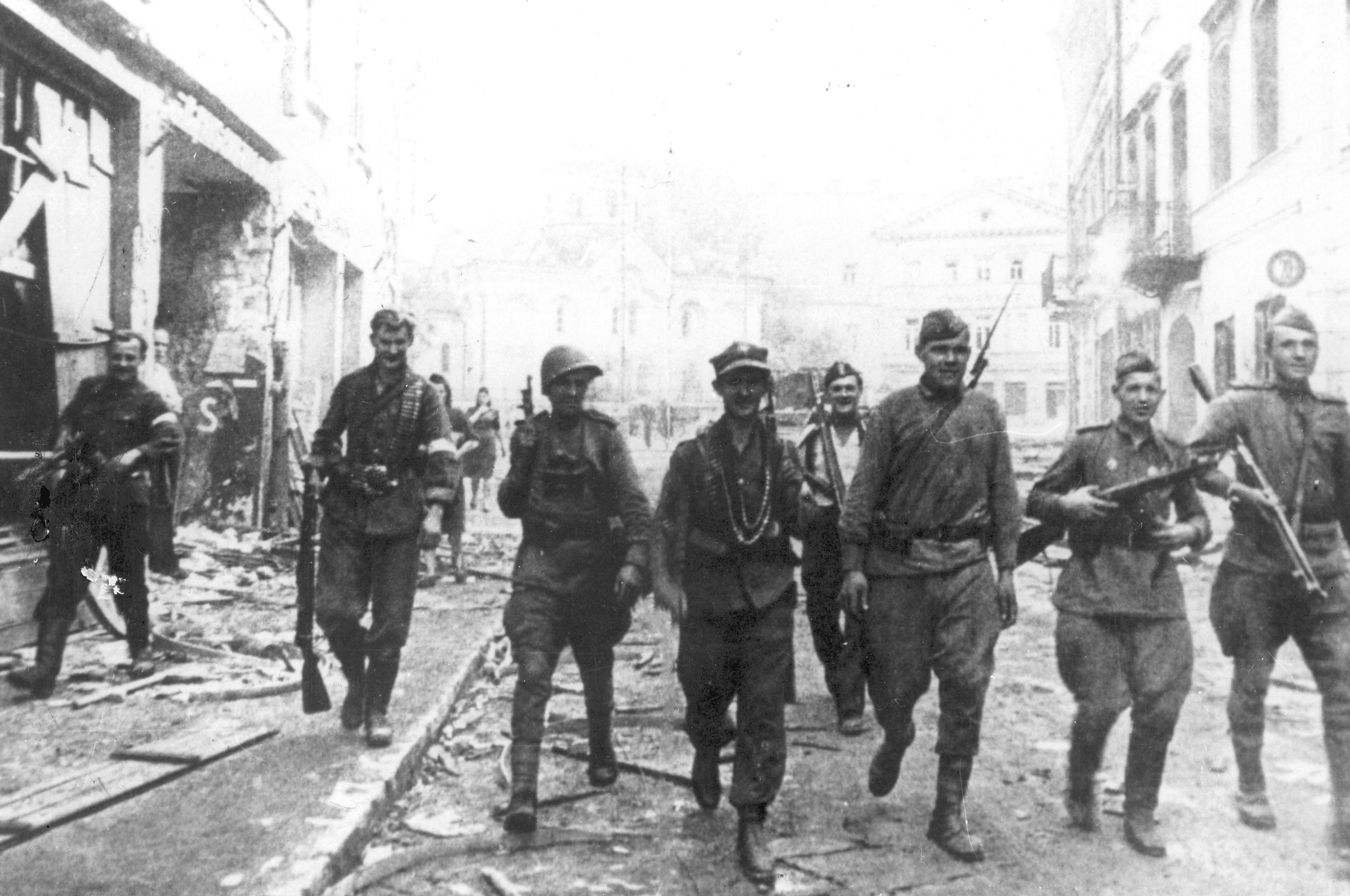 Battle of Vilnius. Soviet and Polish Armija Krajowa Soldiers patrolling along the Large Street. The orthodox church of Vilnius is visible in background.